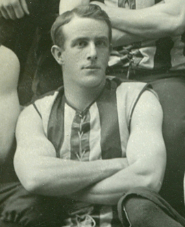 Photograph of Artie Robson in 1901.